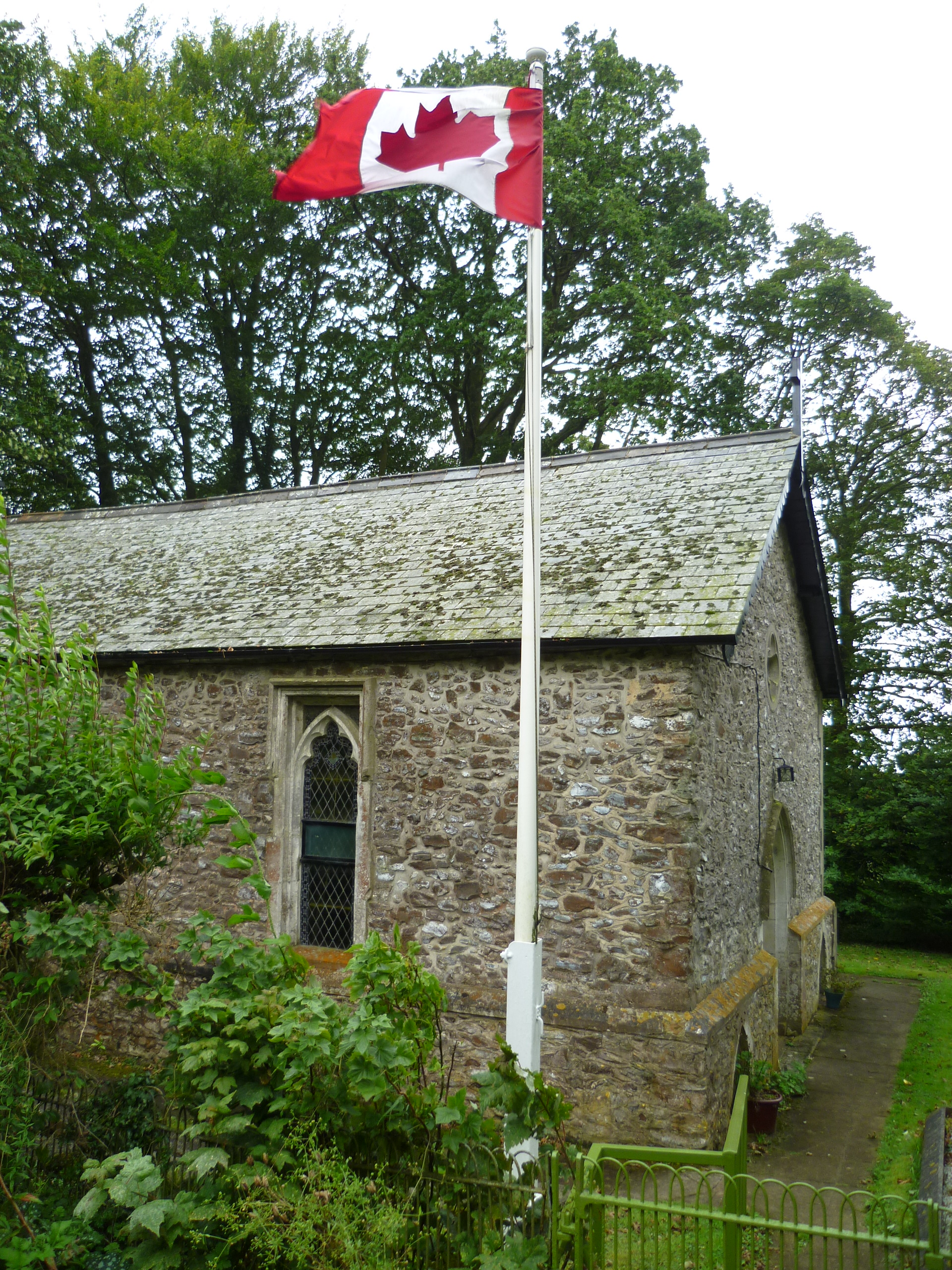 Wolford Chapel, a little bit of Ontario's heritage in Devon. The Canadian flag flies ouside